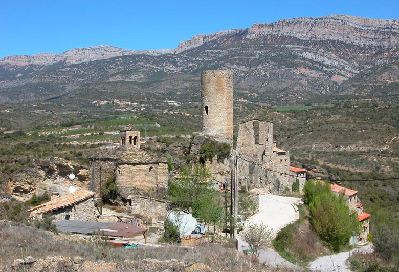 Baronia de Sant Oïsme (old barony) municipality of Camarasa, Noguera, Catalonia. In the background the Montsec (1.675 m.).